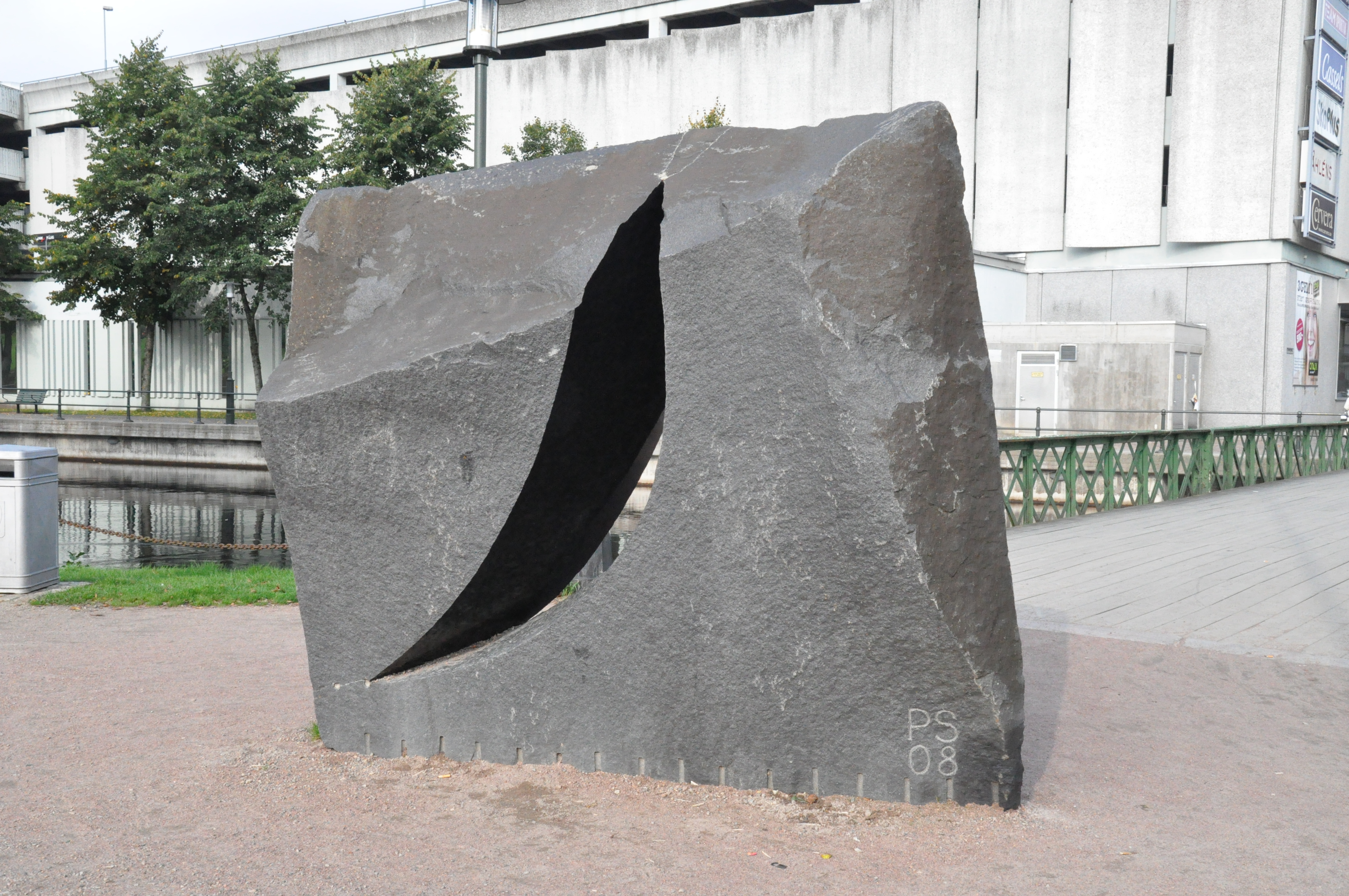 Pål Svensson's Slits, Borås